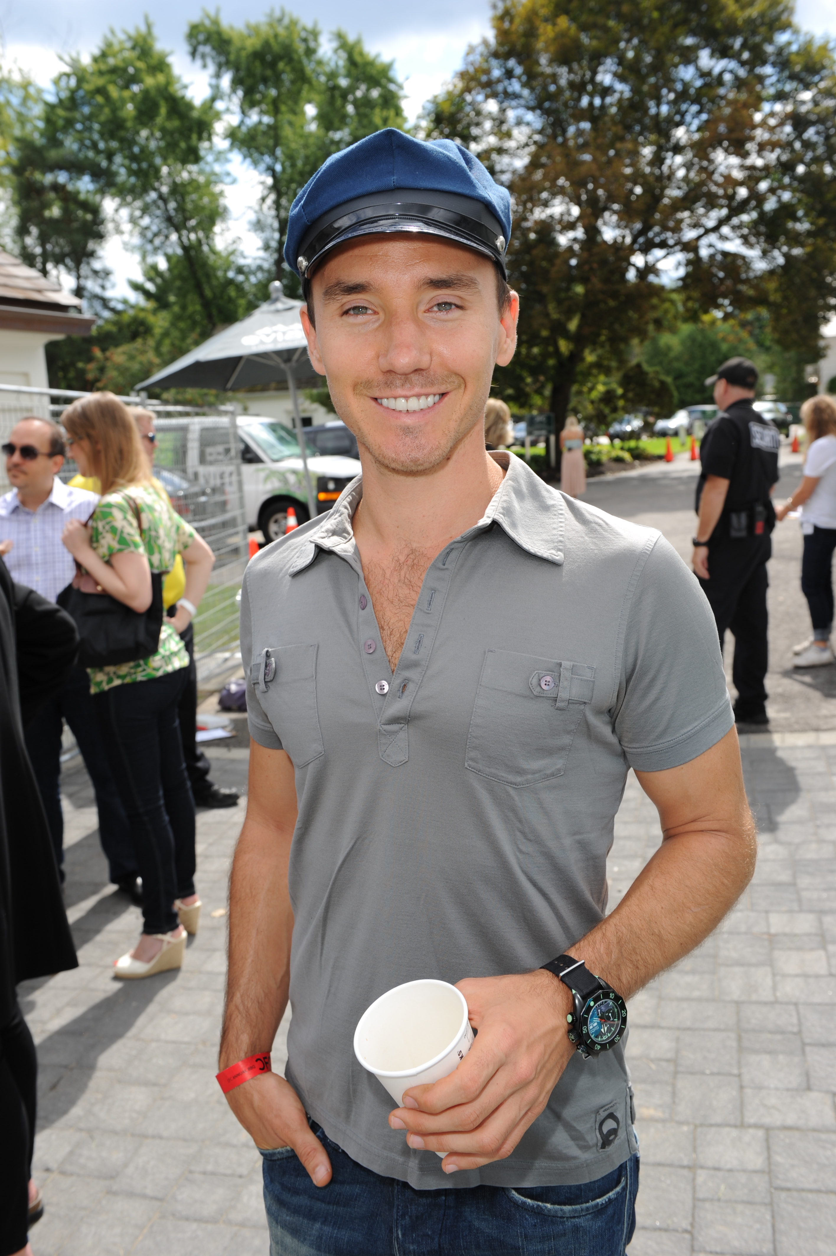 Rob Stewart (Filmmaker for "Sharkwater" and "Revolution", at the Canadian Film Centre BBQ, 2012